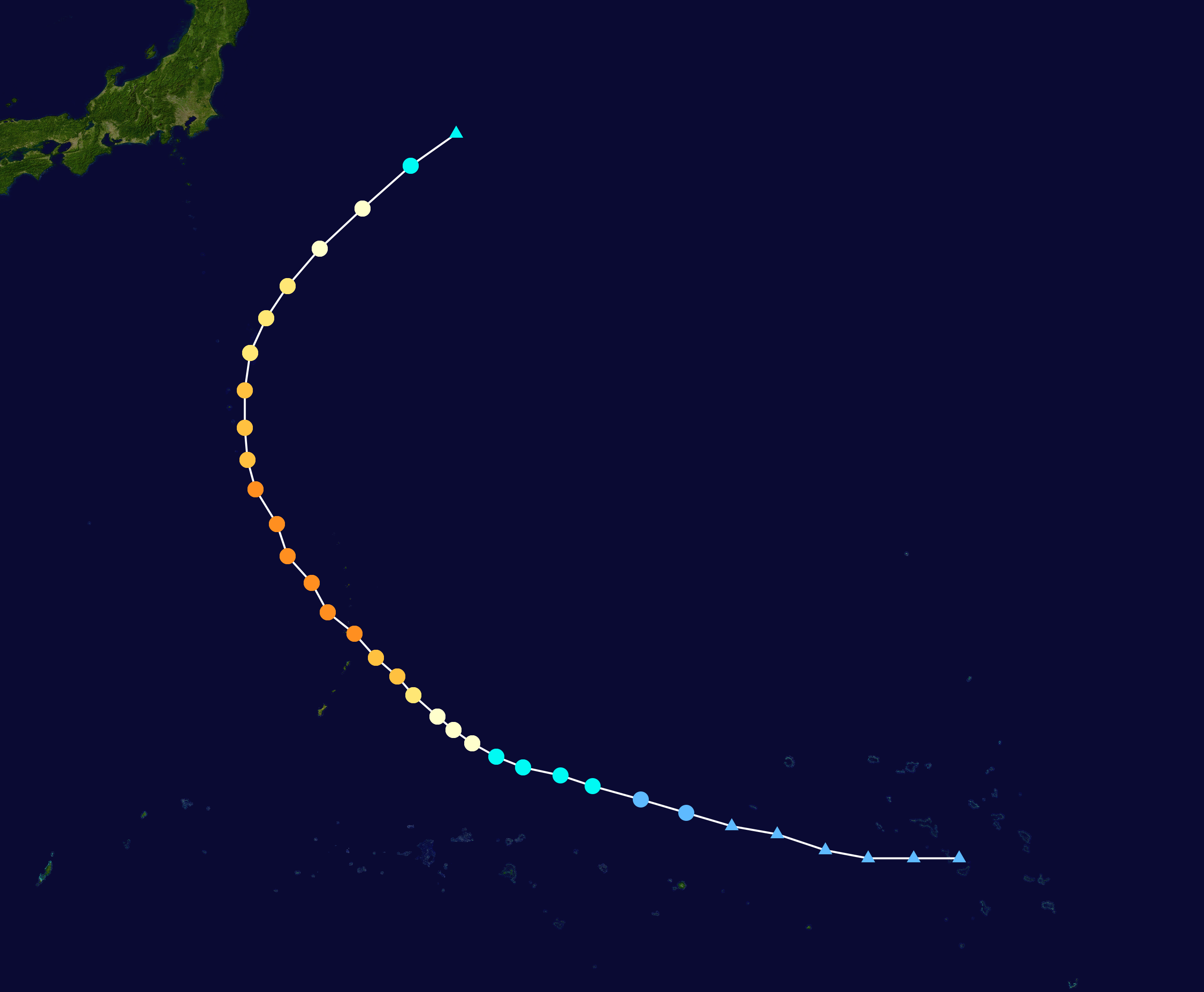 Track map of Typhoon Bualoi of the 2019 Pacific typhoon season. The points show the location of the storm at 6-hour intervals. The colour represents the storm's maximum sustained wind speeds as classified in the Saffir–Simpson scale (see below), and the shape of the data points represent the nature of the storm, according to the legend below. Saffir–Simpson scale Tropical depression≤38 mph≤62 km/h Category 3111–129 mph178–208 km/h Tropical storm39–73 mph63–118 km/h Category 4130–156 mph209–251 km/h Category 174–95 mph119–153 km/h Category 5≥157 mph≥252 km/h Category 296–110 mph154–177 km/h Unknown Storm type Tropical cyclone Subtropical cyclone Extratropical cyclone / Remnant low / Tropical disturbance / Monsoon depression